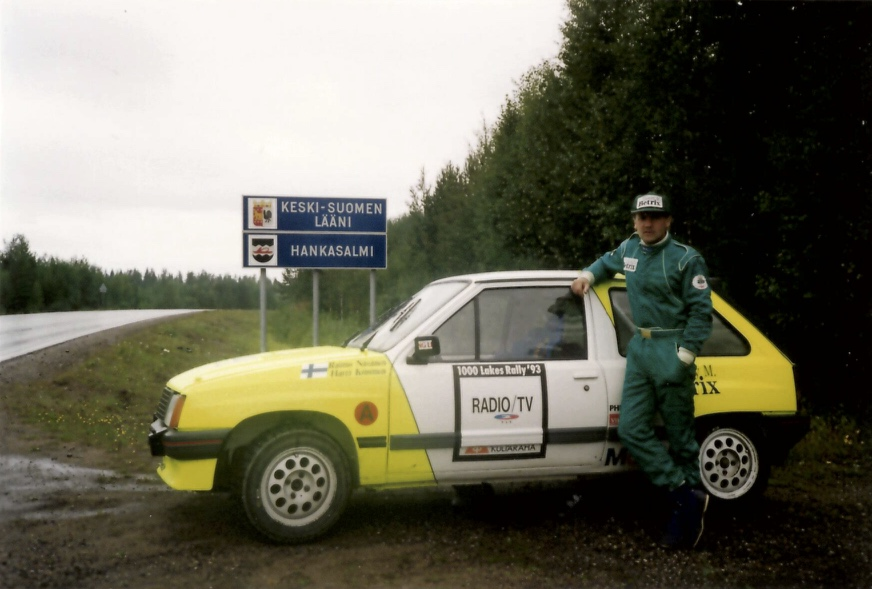 Raimo Näsänen and Opel Corsa 1993 in the Finnish TV show in TV.